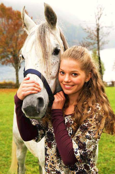 german actress